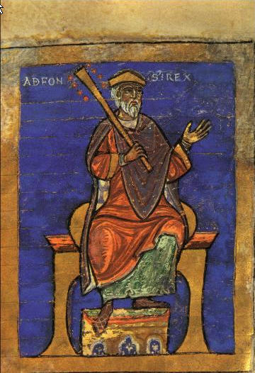 Alphonse II of Asturias